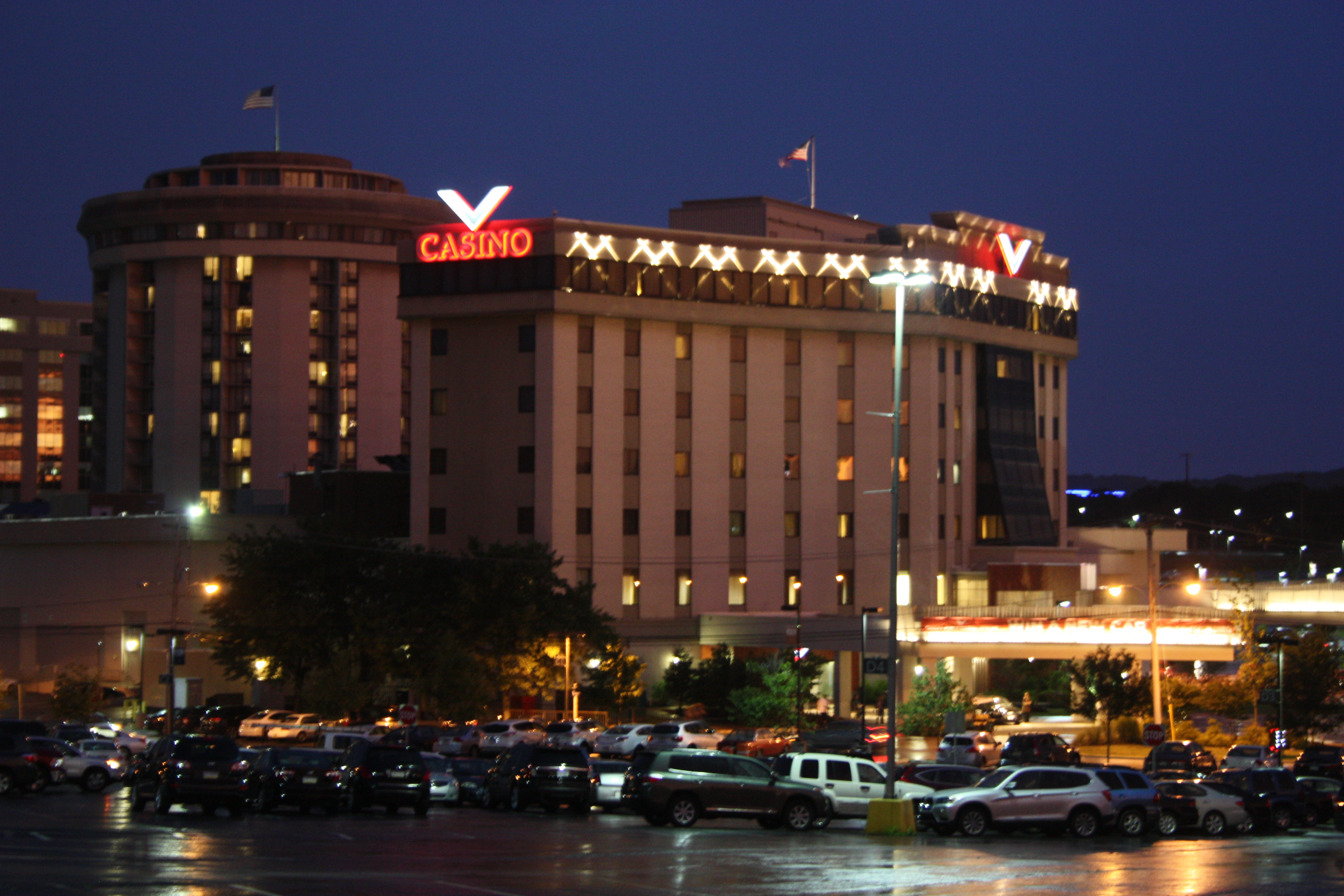 Valley Forge Casino Resort, Upper Merion Township, Montgomery County, Pennsylvania.